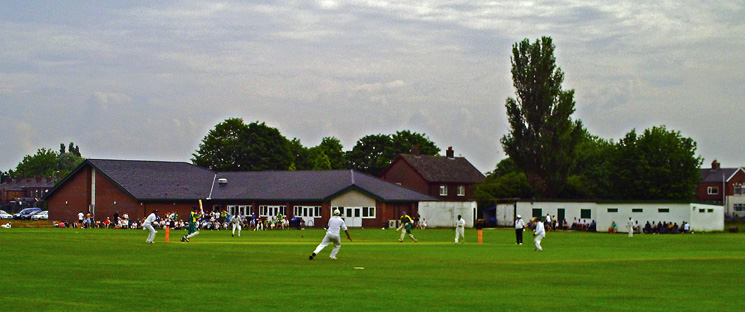 Hindley St. Peter's Pavilion, as seen during a match between Hindley and Deane and Derby 2nd XI.